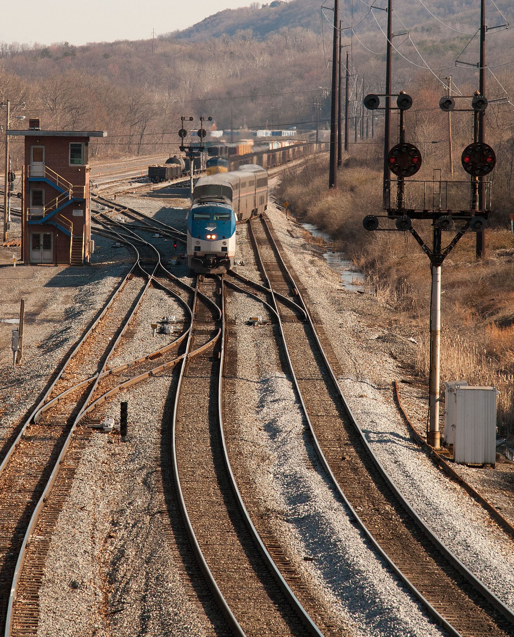 Amtrak #30 "The Capitol Limited" threads its way through the yard in Cumberland, MD. Mexico Tower (no longer active as a tower) is on the left. CPL signals can be seen on the right.